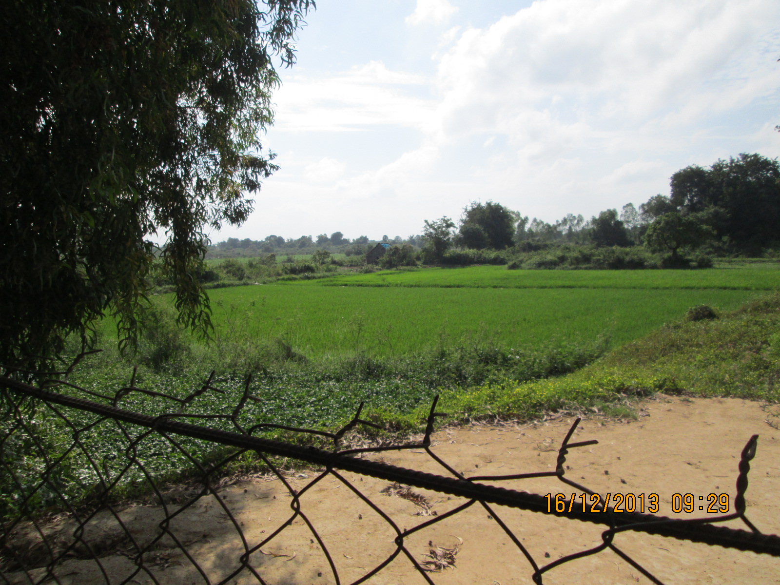 The "Killing Fields" are surrounded by lush paddy fields.